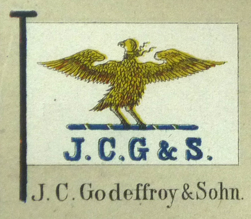 Flag of J.C. Godeffroy & Sohn, Shipping Company